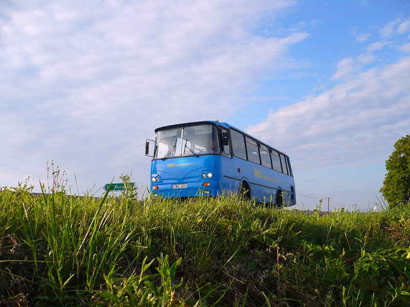 Autosan H9-35 bus (#50008) in Słupie, Poland. Buiilt 1995, PKS Grudziądz operator. Modified in 2005.